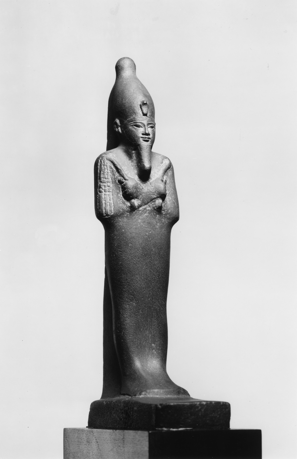 This statuette of Osiris has an atef crown with a uraeus. His arms are crossed, and he has a whip in his left hand and a crook in his right. There is a stele at the back.